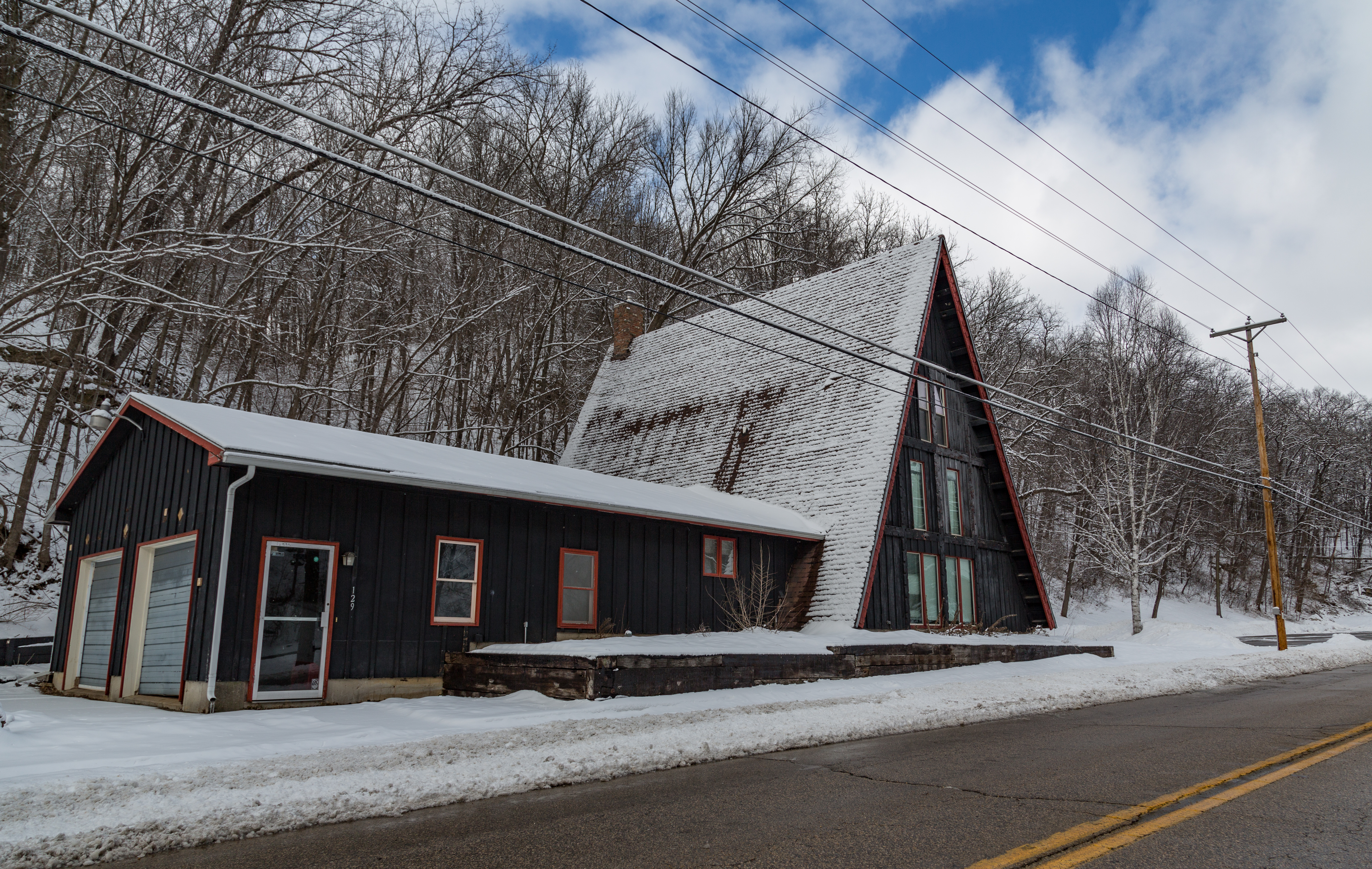 The former visitor center of the NRHP-listed St. John Mine, now a unique house along the Great River Road, 129 South Main Street, Potosi, Wisconsin 53820